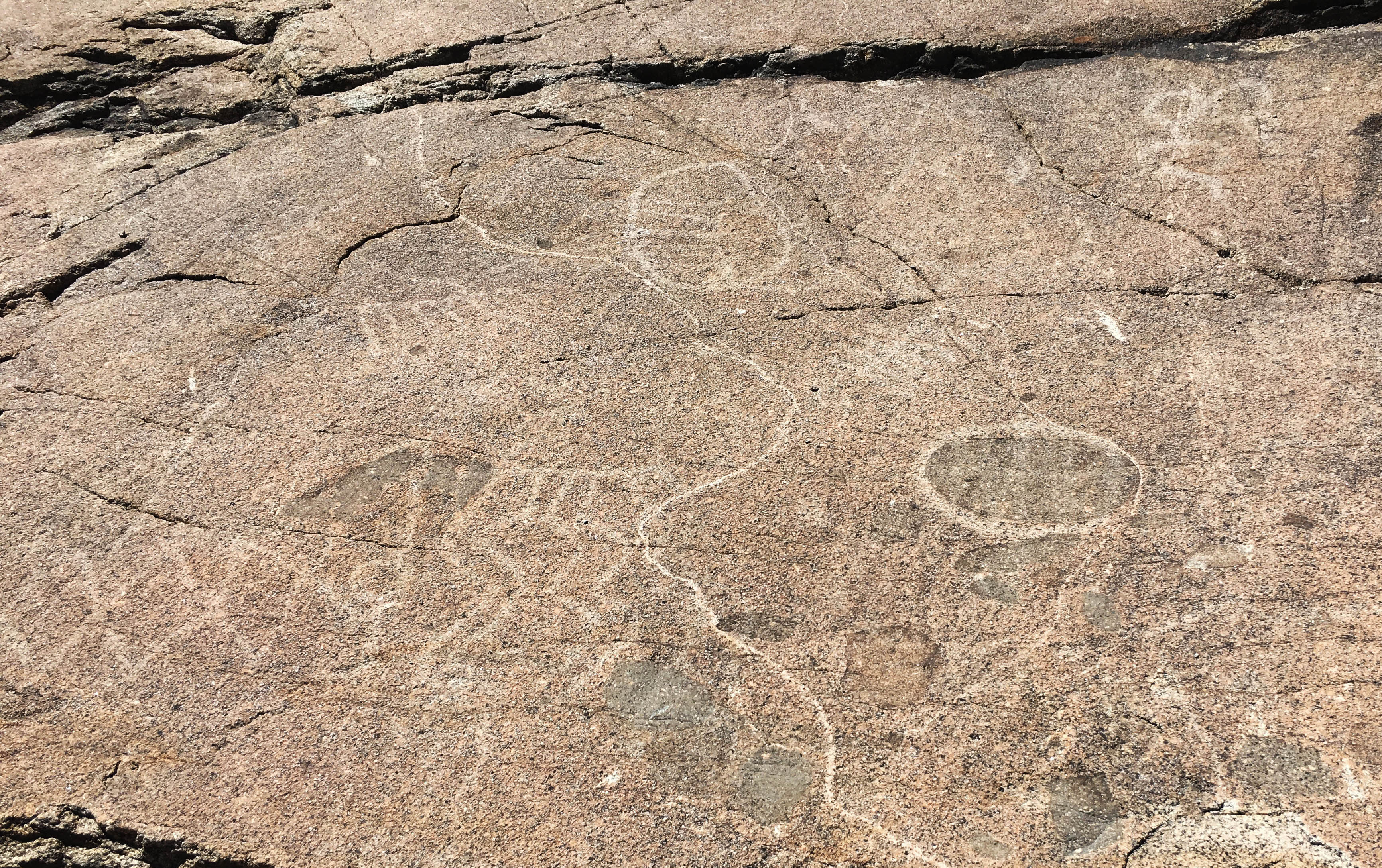 petroglyphs at Donner Pass in Truckee